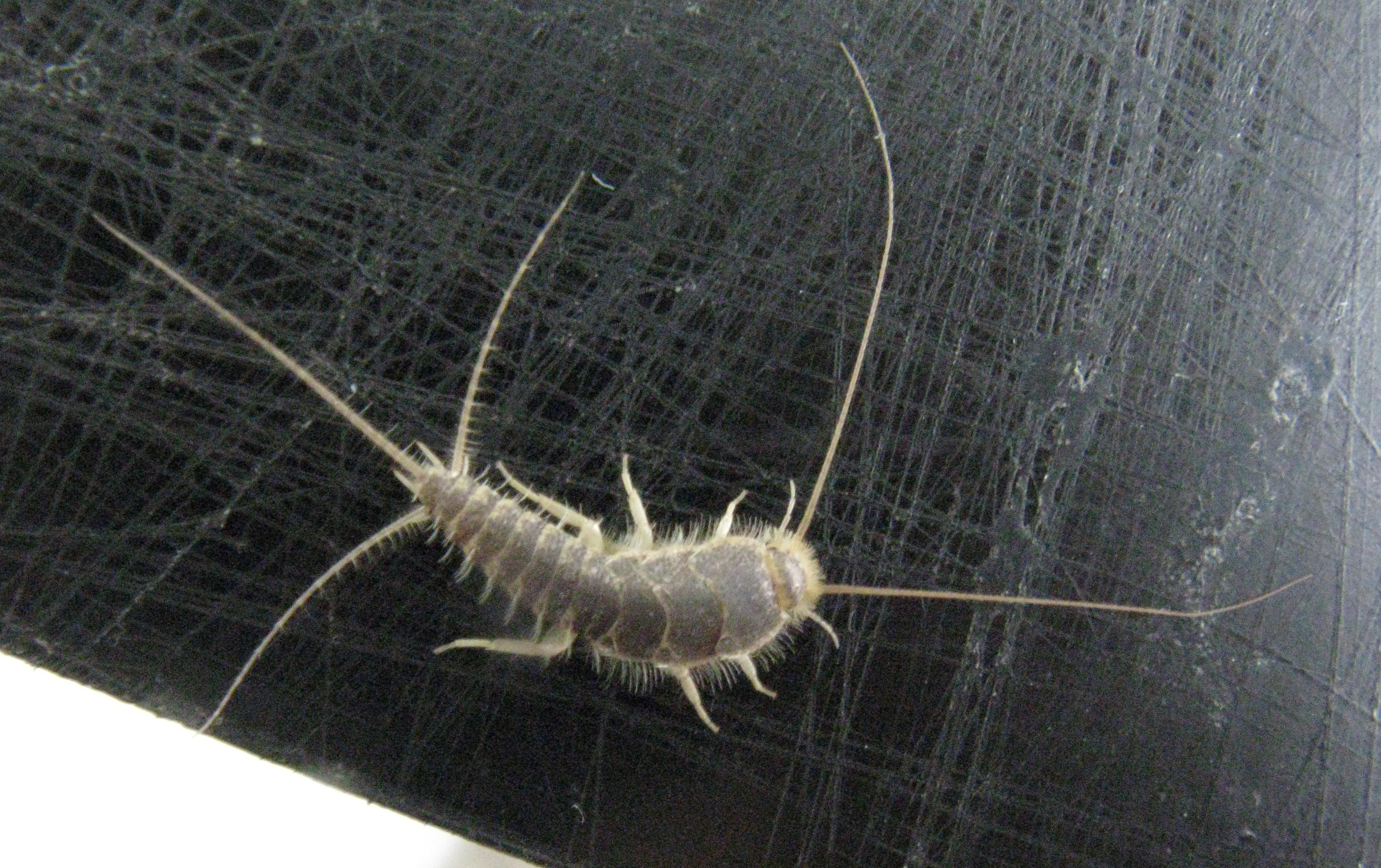 Ctenolepisma longicaudata. Alien (European) species photographed in Somerset West, South Africa